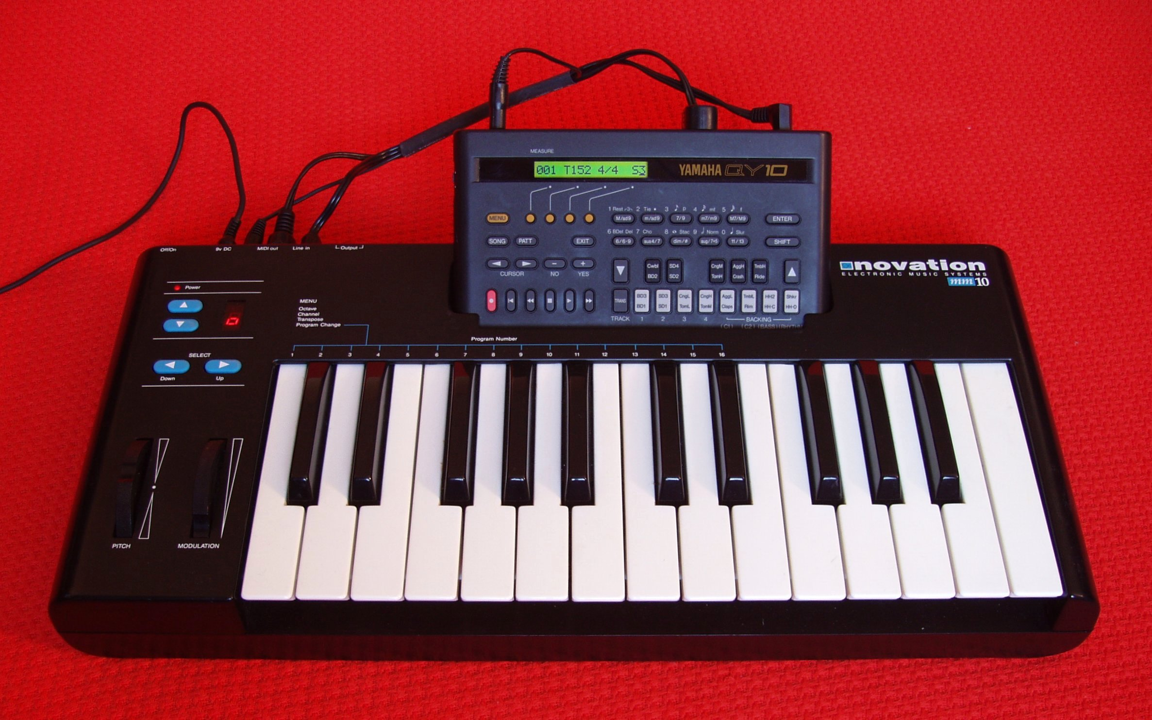 The Novation MM10 with a Yamaha QY10 in its "docking bay".